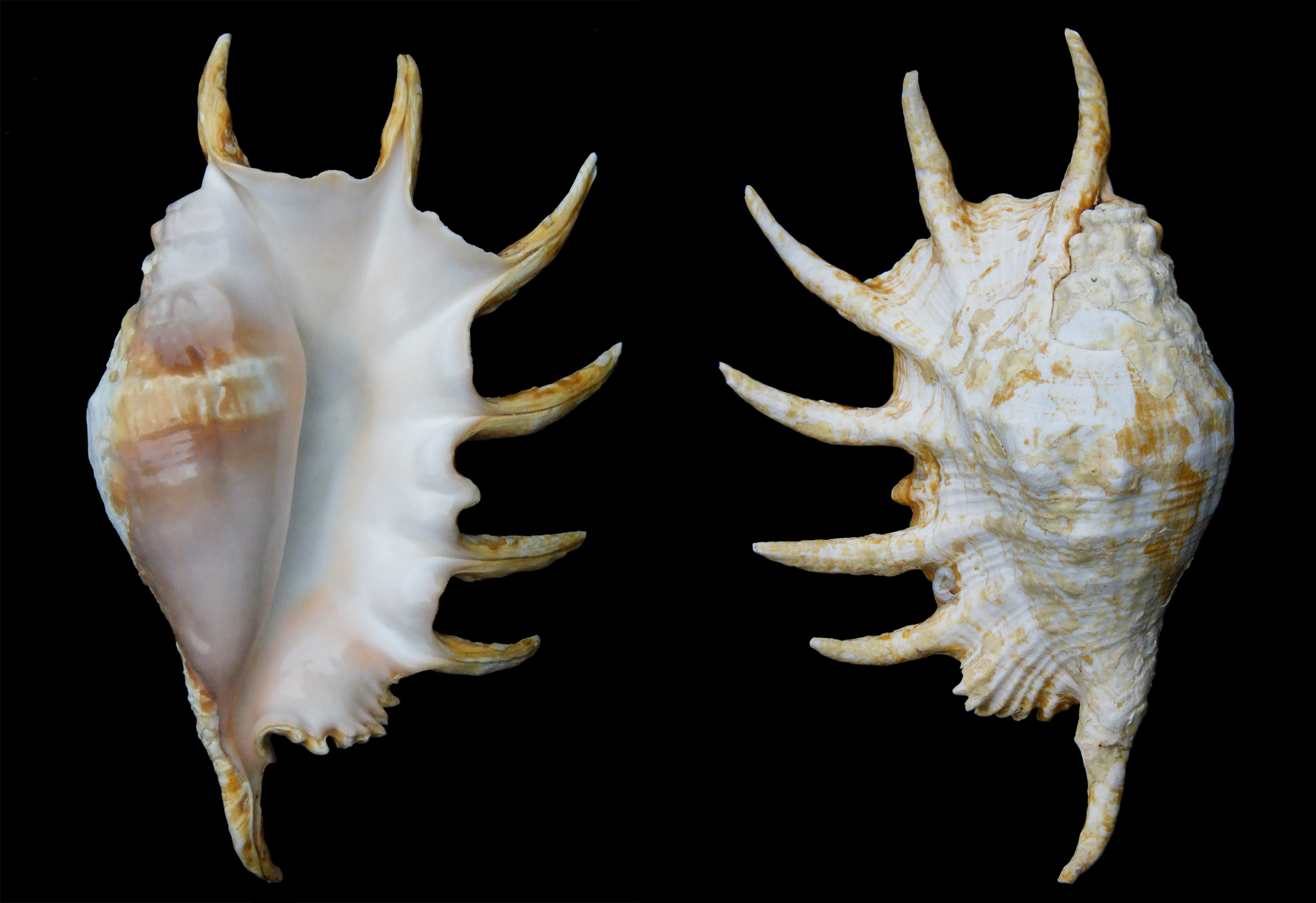 Lambis truncata truncata Humphrey, 1786, Philippines. 37 cm.